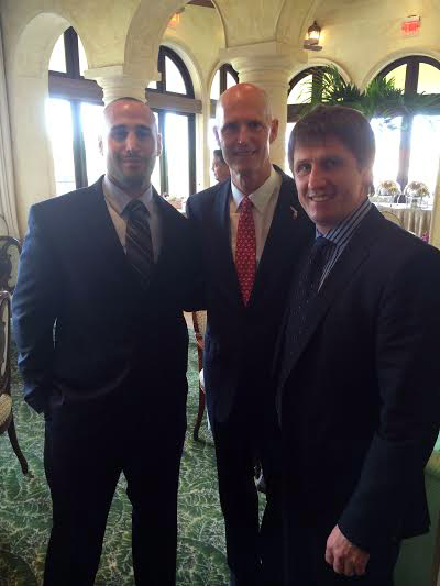 Julius Numavicius, Governor Rick Scott of Florida and Michael Elion